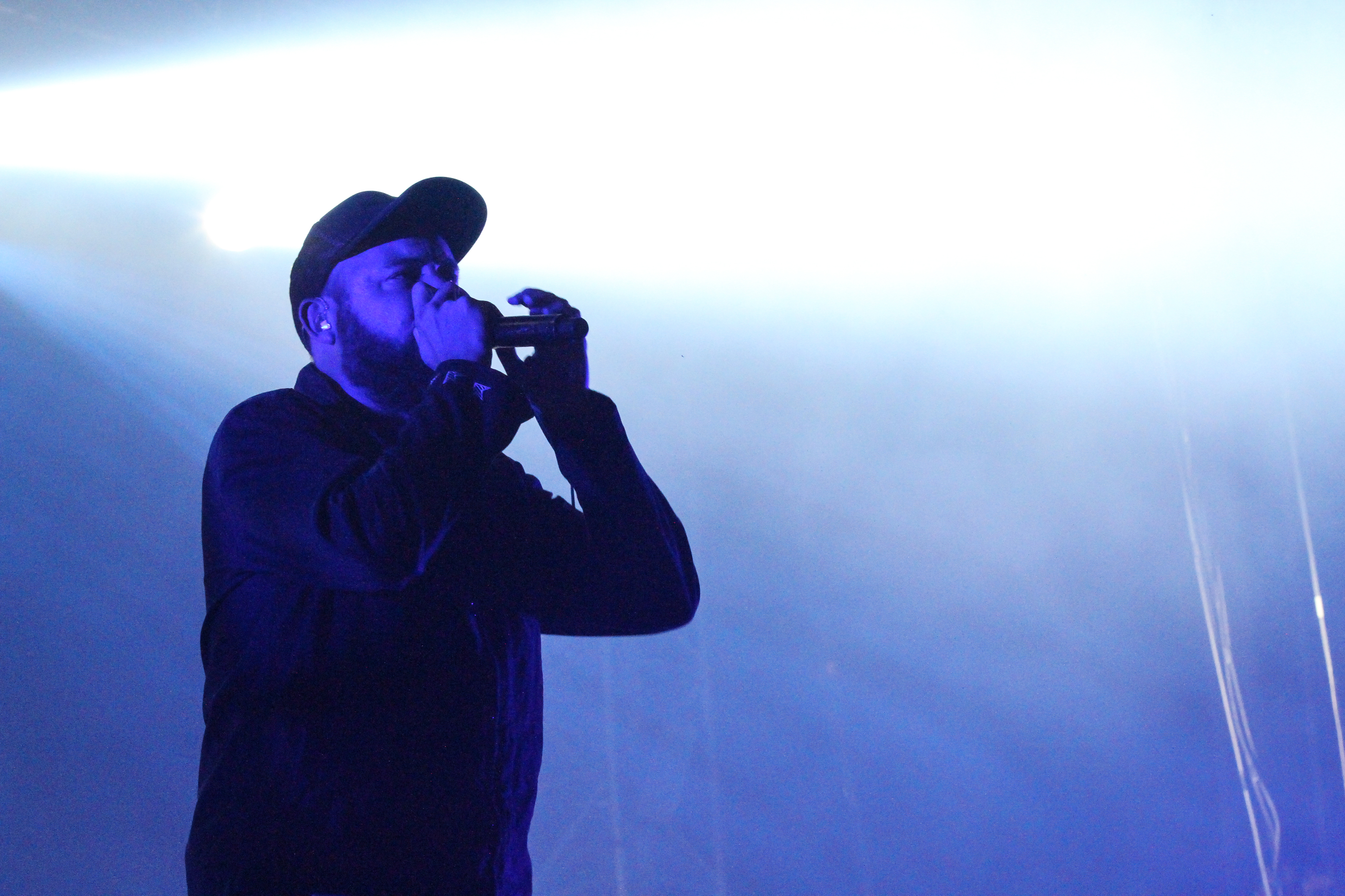 In Flames performing at With Full Force Festival 2013